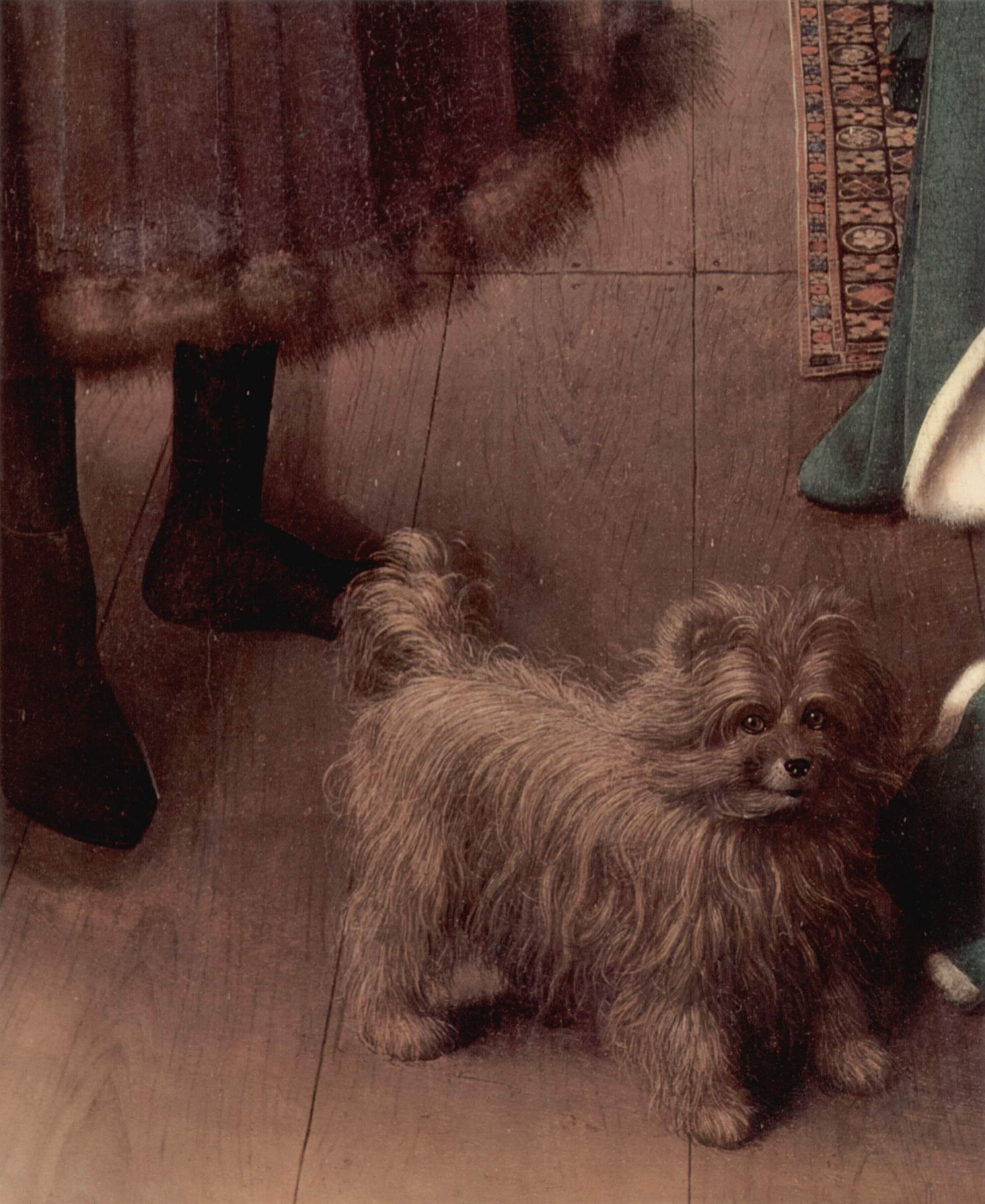 Crop of the painting The Arnolfini Portrait Artist Jan van Eyck (circa 1390–1441) Alternative namesJean van Eyck, Johannes van EyckDescriptionFlemish painter, draughtsman and manuscript illuminatorDate of birth/deathcirca 1390before 9 June 1441Location of birth/deathMaaseikBrugesWork locationThe Hague (1422), Bruges (1425), Lille (1425–1428), Bruges (1431–1441)Authority control : Q102272 VIAF: 54156267 ISNI: 0000 0001 2101 4186 ULAN: 500116209 LCCN: n50048855 NLA: 35072913 WorldCat Title